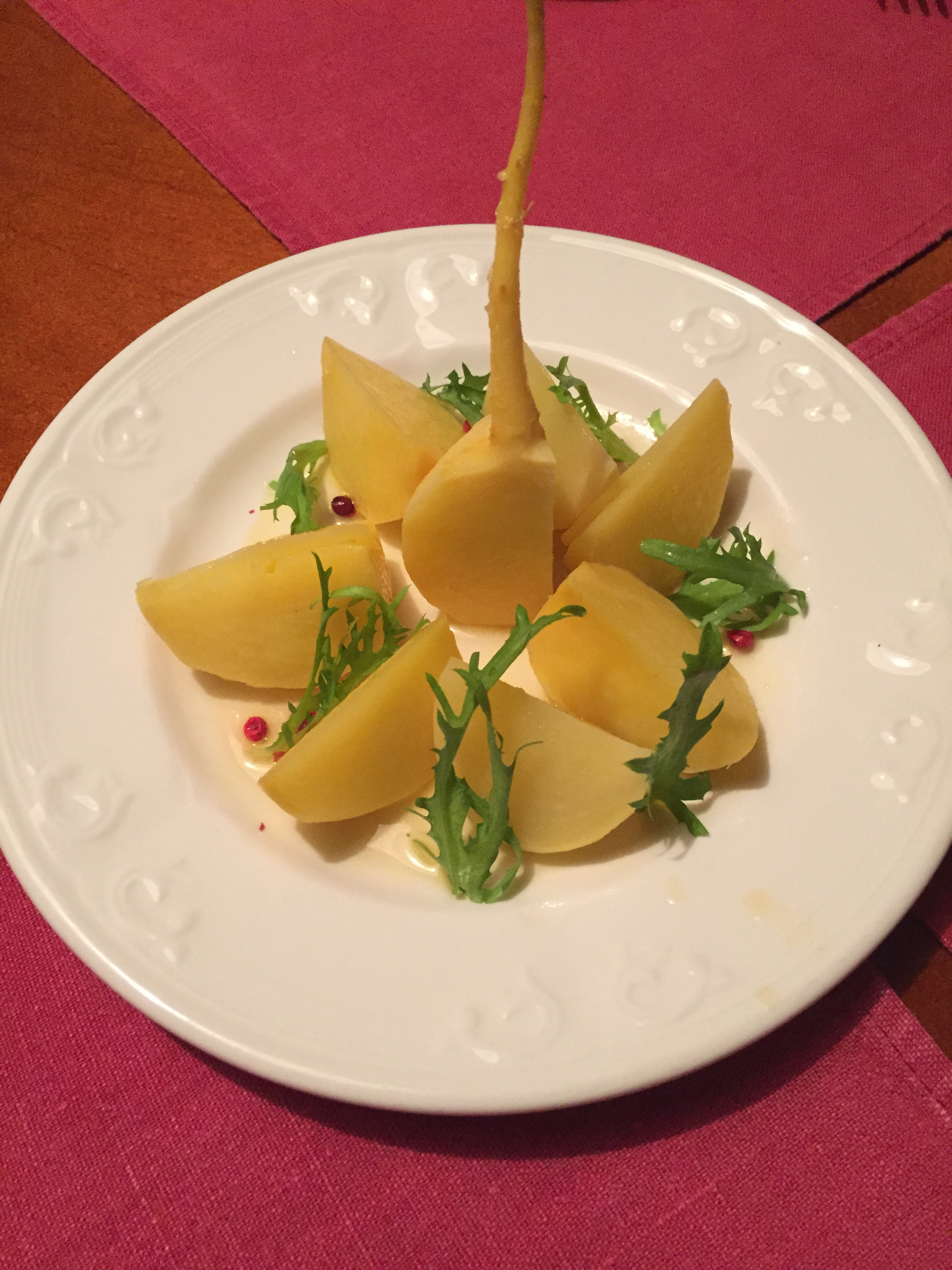 Baked turnip (Brassica rapa), old style Russian meal